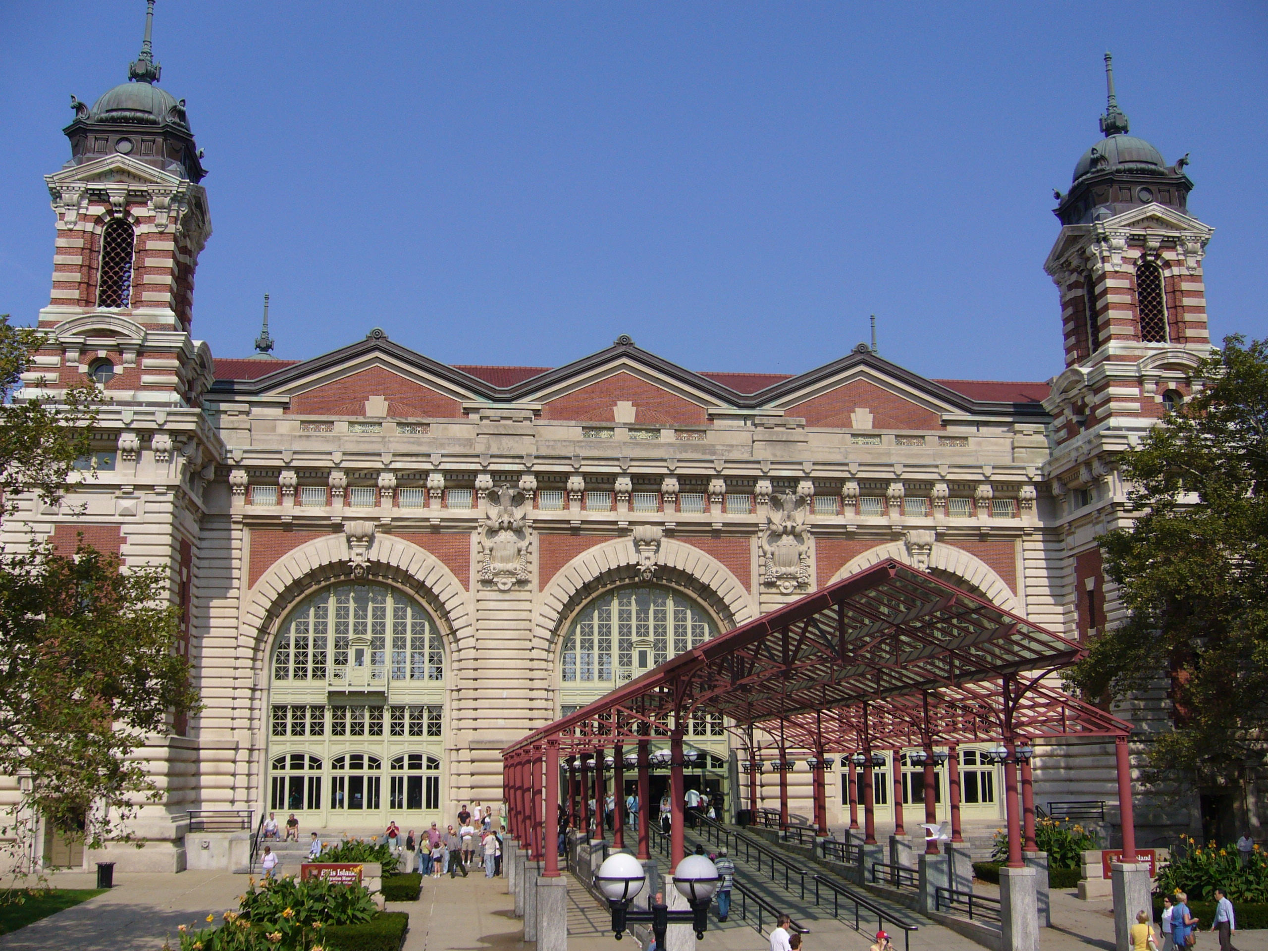 Entrance to Ellis Island Museum.